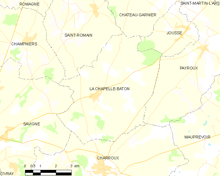 Map of French municipality La Chapelle-Bâton